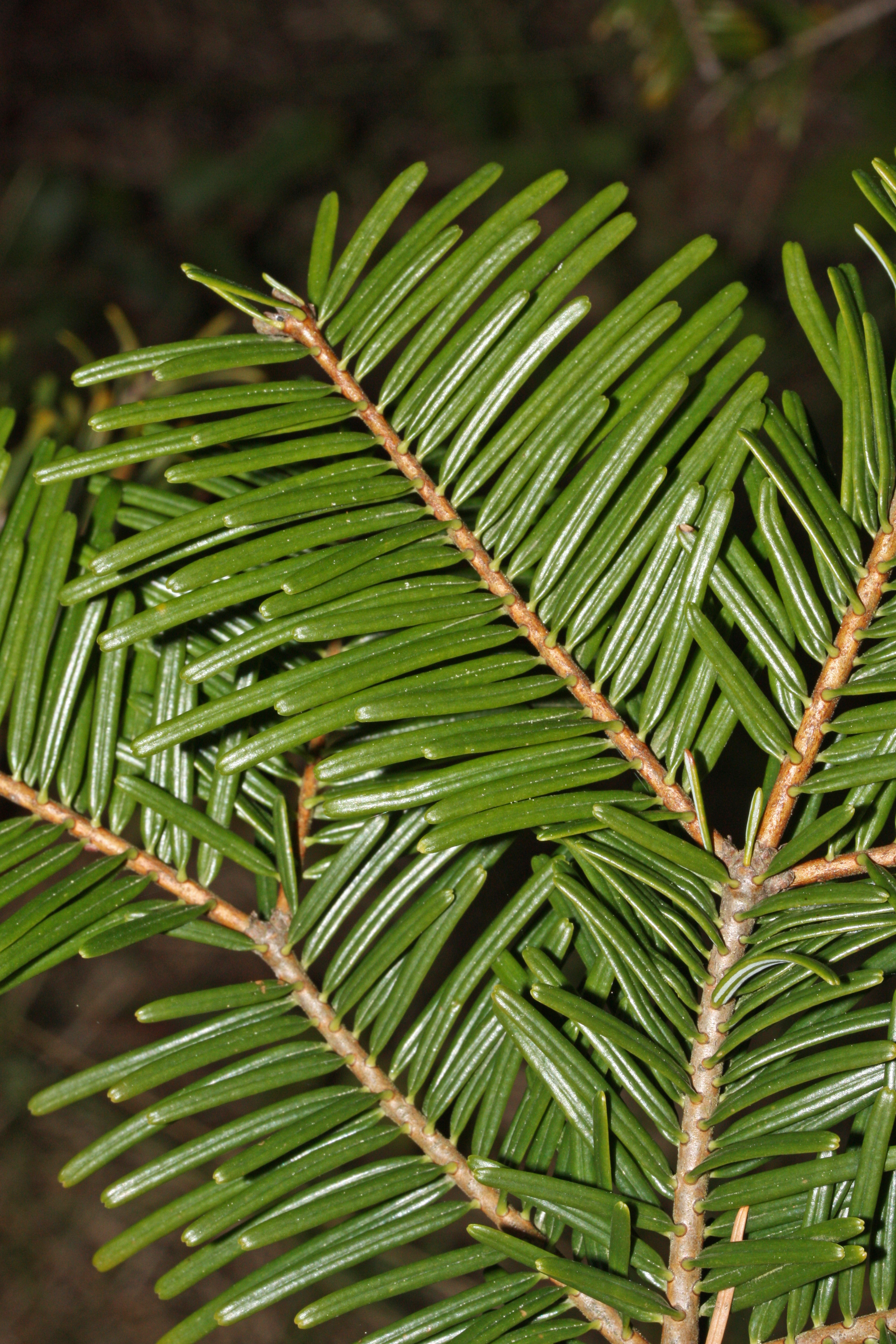 Grand Fir